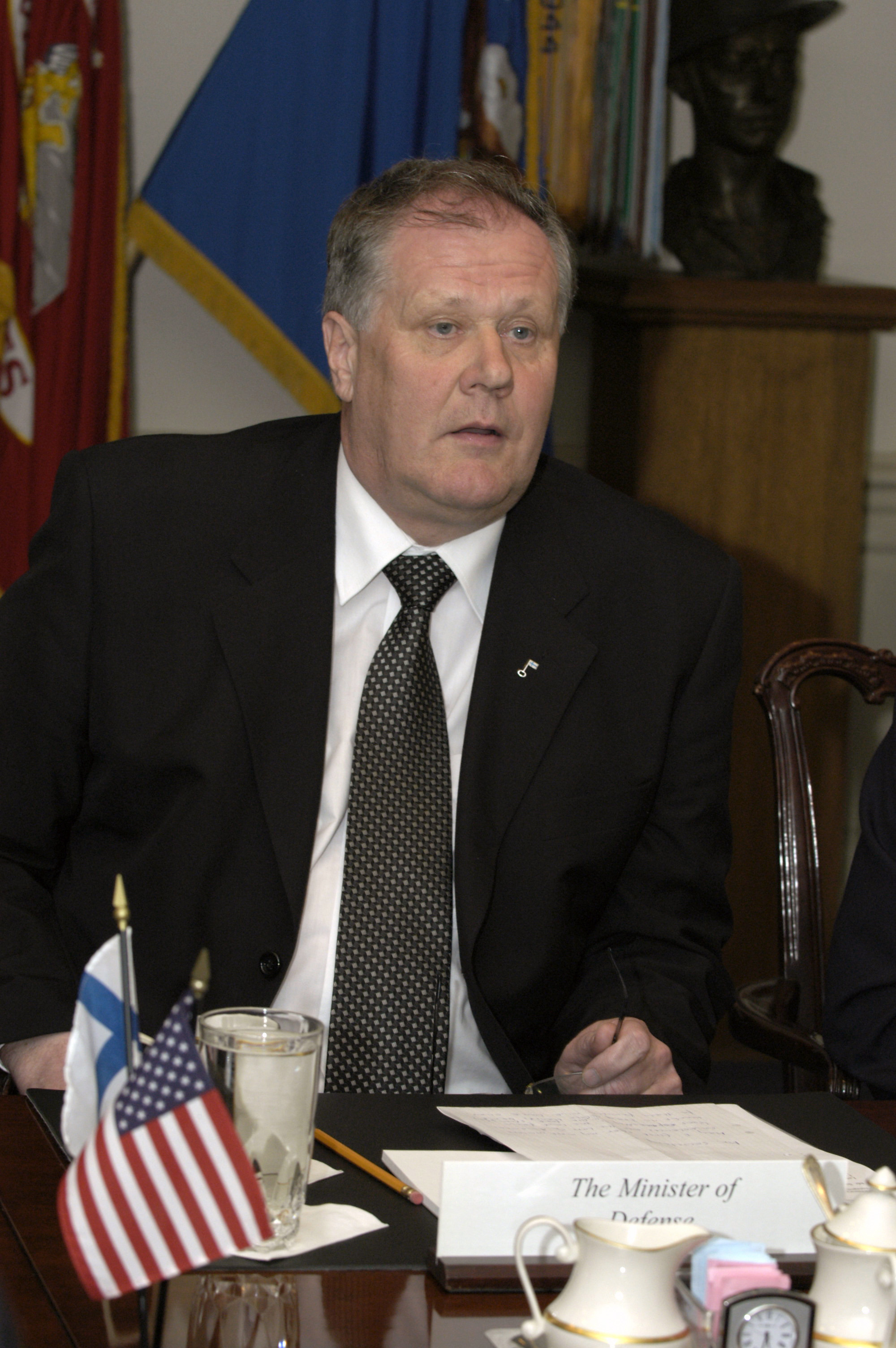 Finland's Minister of Defense Seppo Kaariainen meets with Secretary of Defense Donald H. Rumsfeld in the Pentagon on April 19, 2004. The two leaders are meeting to discuss defense issues of mutual interest.